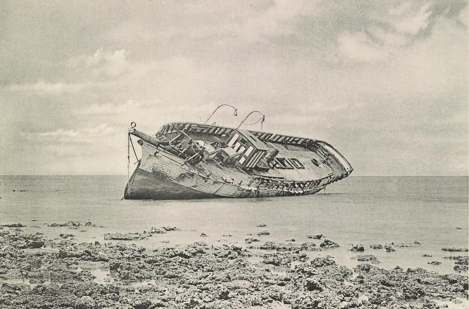 HMS Harrier was a schooner of the Royal Navy (entered service 1881) that was later sold to the London Missionary Society. The ship wrecked upon the Great Barrier Reef near Cooktown in July 1891. This is plate XXX (cropped) from William Saville-Kent, The Great Barrier Reef of Australia, London: W. H. Allen (1893).